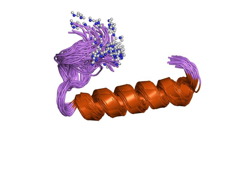 Cartoon representation of the molecular structure of protein registered with 2glh code.